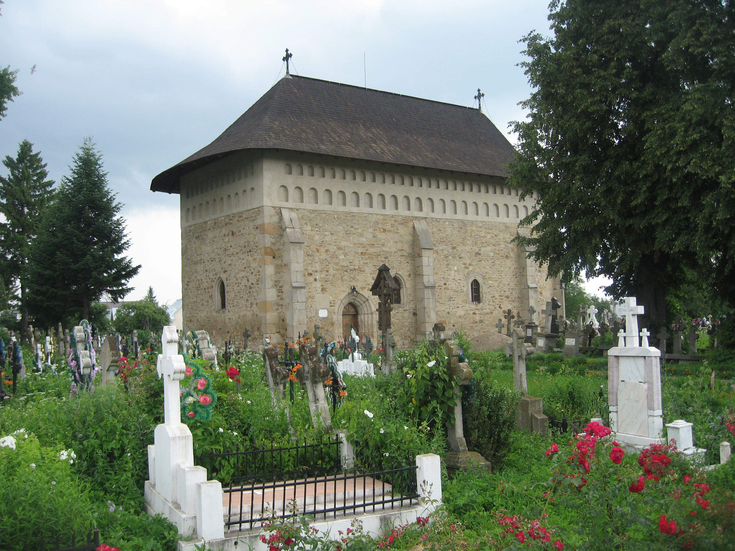 Biserica Înălţarea Sfintei Cruci din Volovăţ